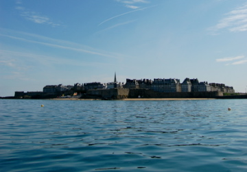 Saint-Malo from the sea